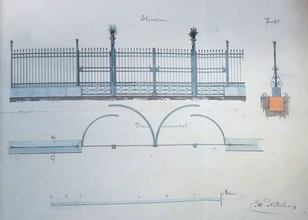 Copou park (grating) (archive picture)